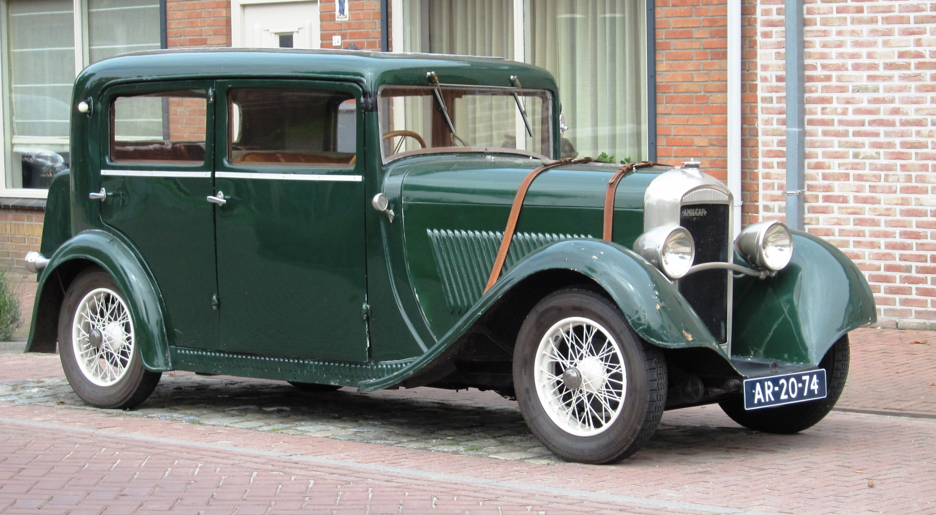 1932 Amilcar M3 Saloon photographed in Zeeland